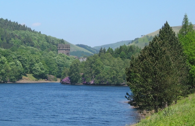 The northern end of Derwent Reservoir, showing the small island and the western tower of Howden Dam behind. Water can be seen cascading over the dam (right of tower). To the right, on the skyline, rises a minor peak on Howden Moor. View from the footpath along the reservoir's east bank, on a blazingly hot June afternoon. For more information see the Wikipedia articles River Derwent (Derbyshire), Derwent Reservoir (Derbyshire) and Derwent Reservoir.